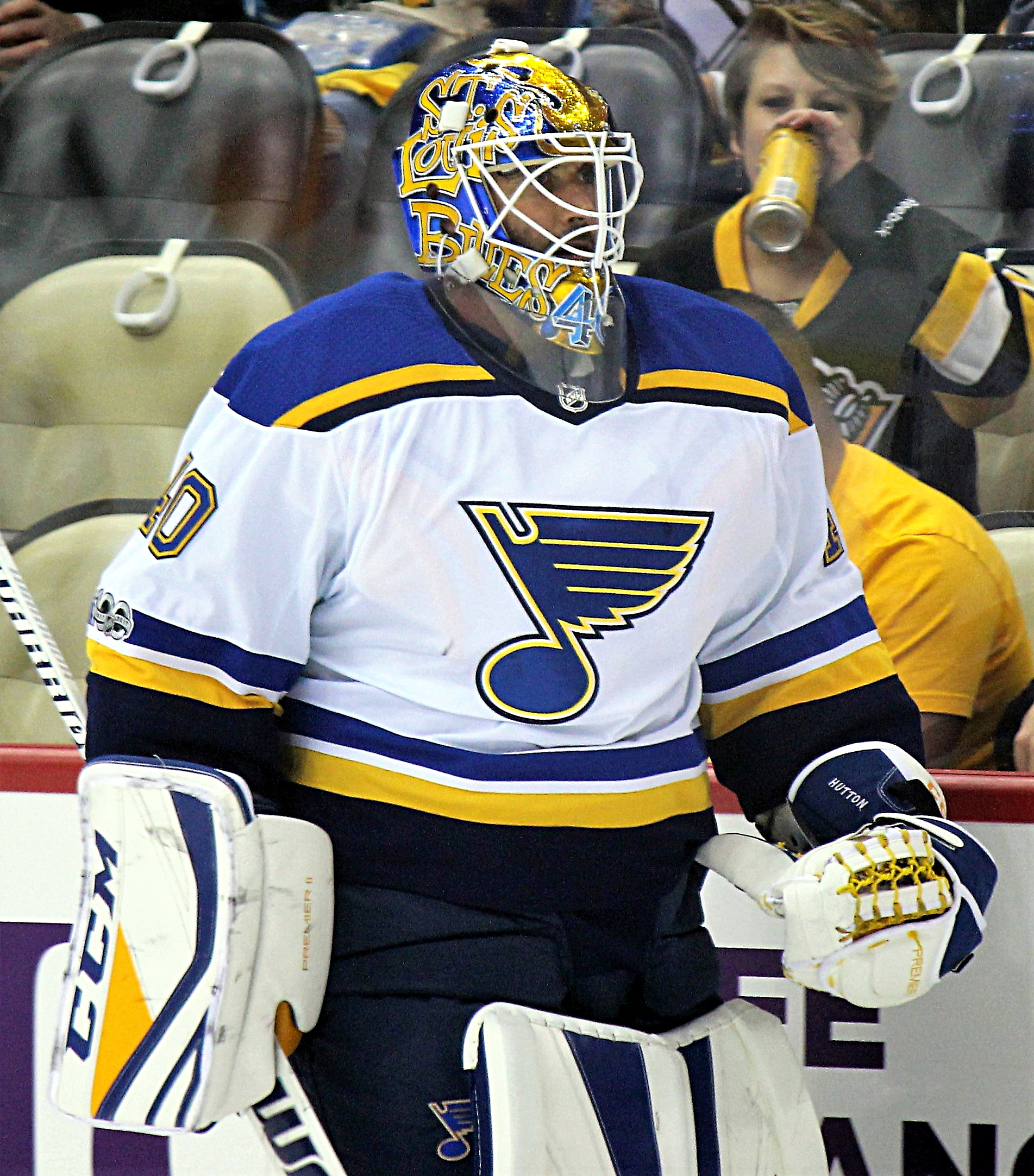 St. Louis Blues goaltender Carter Hutton during a game against the Pittsburgh Penguins, October 4, 2017, at PPG Paints Arena in Pittsburgh, PA.